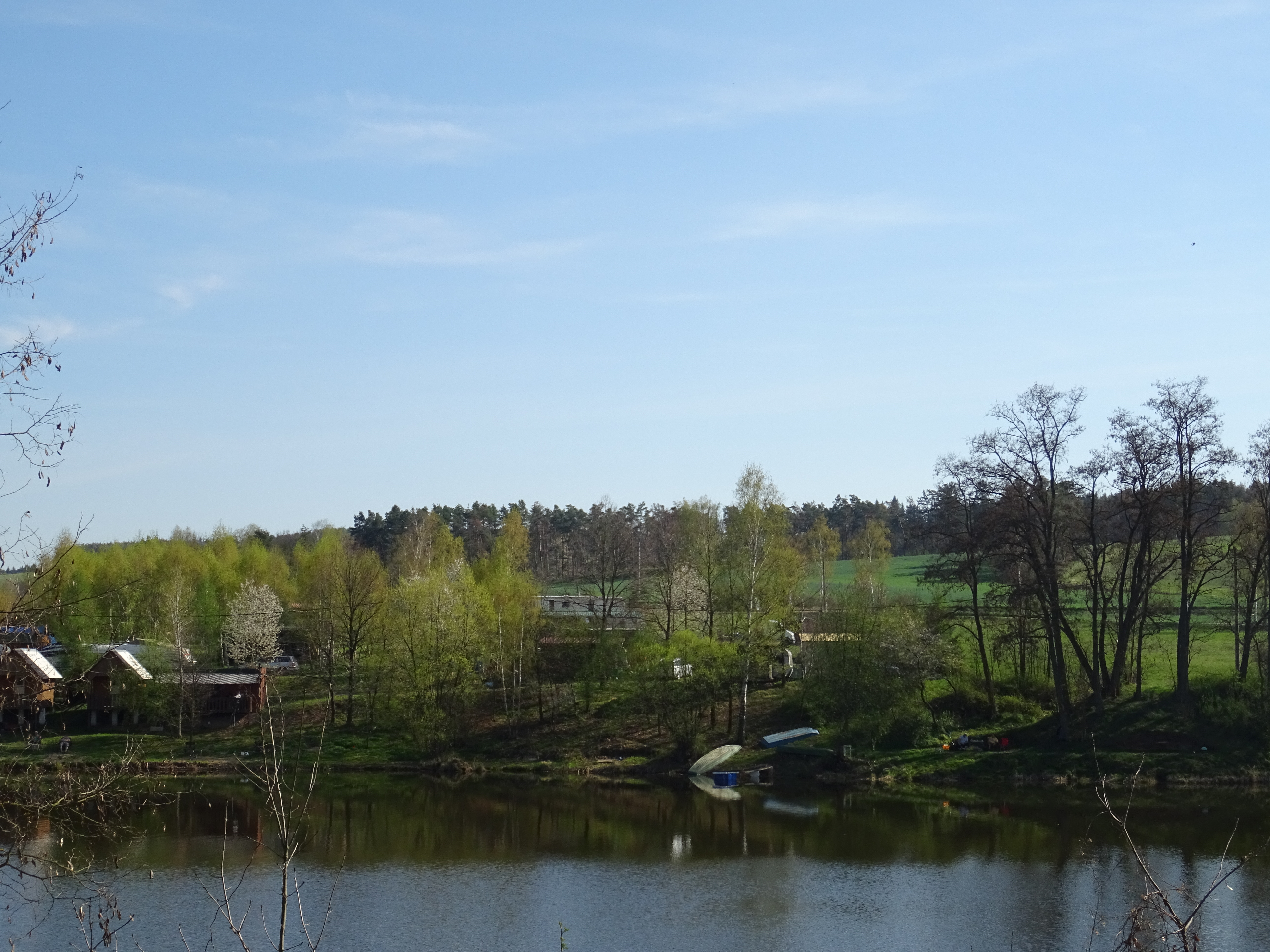 This photograph was created as a part of Wikiexpedition Mladá Vožice, a project supported by Wikimedia Foundation grant.